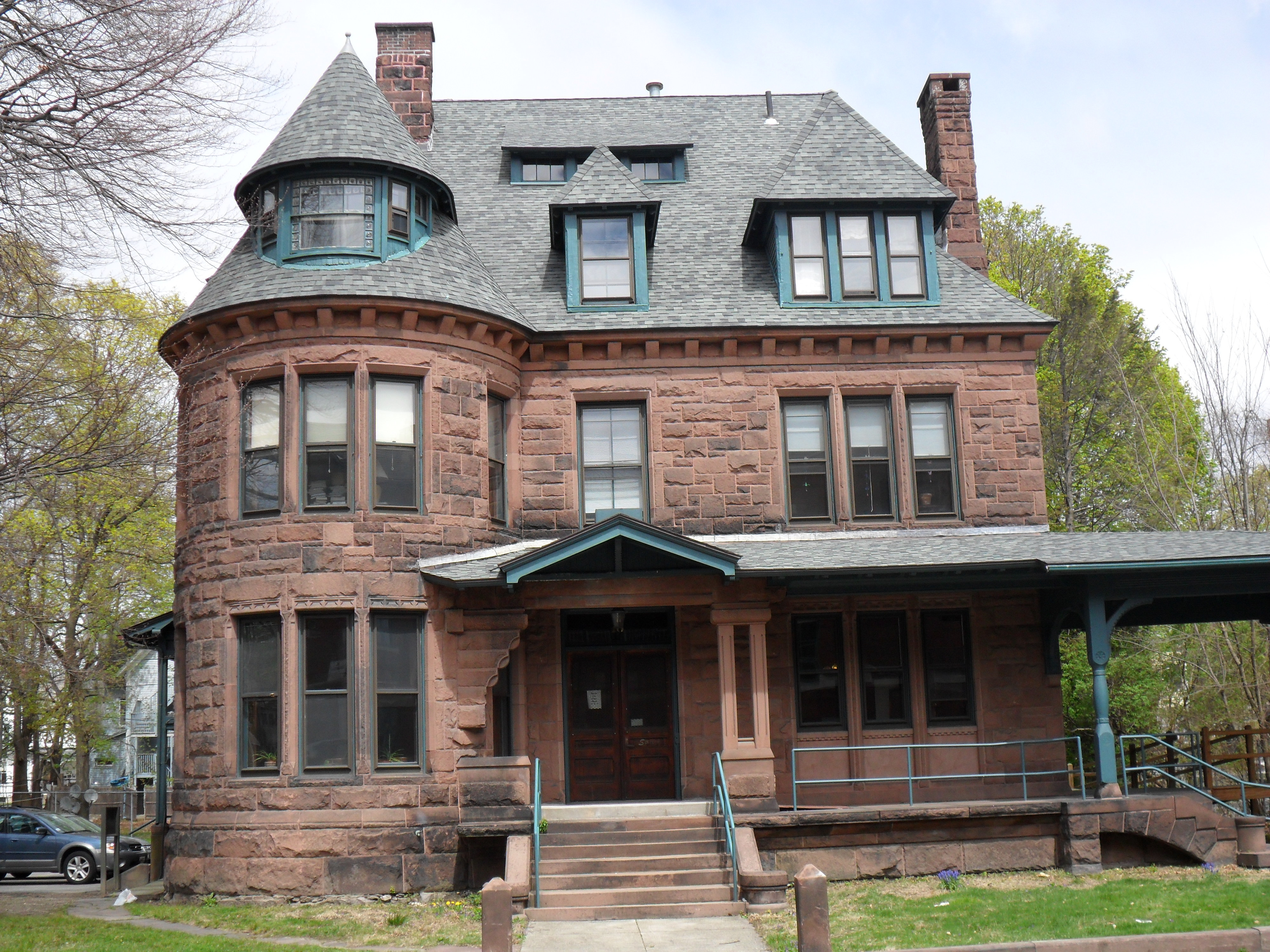 James Atkinson Norcross House, 18 Claremont Street, Worcester, Massachusetts, otherwise known as the Jeanne X. Kasperson Library of Clark University